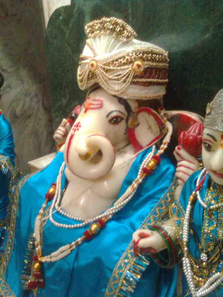 ganesh temple jhansi